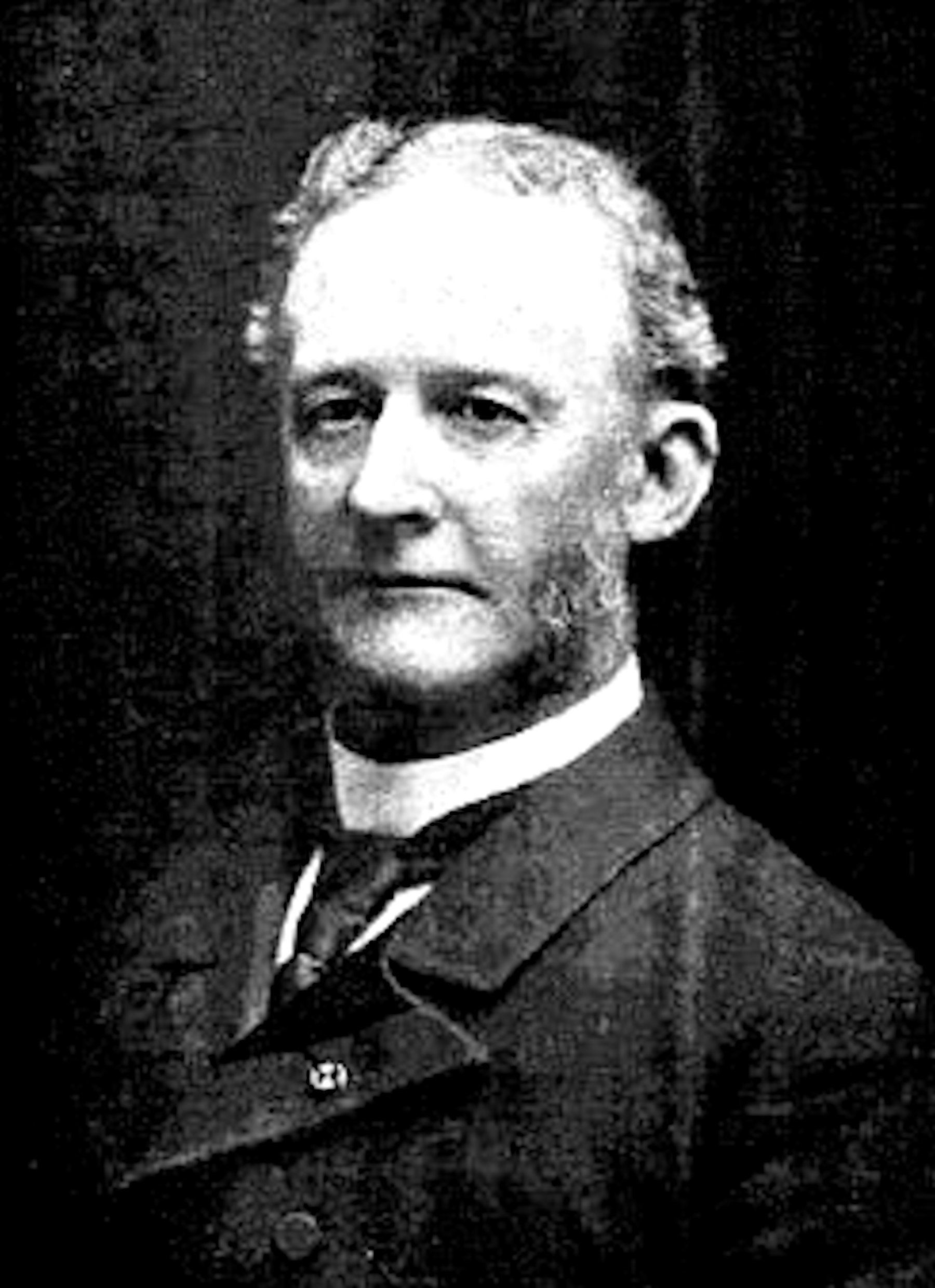 Medal of Honor winner